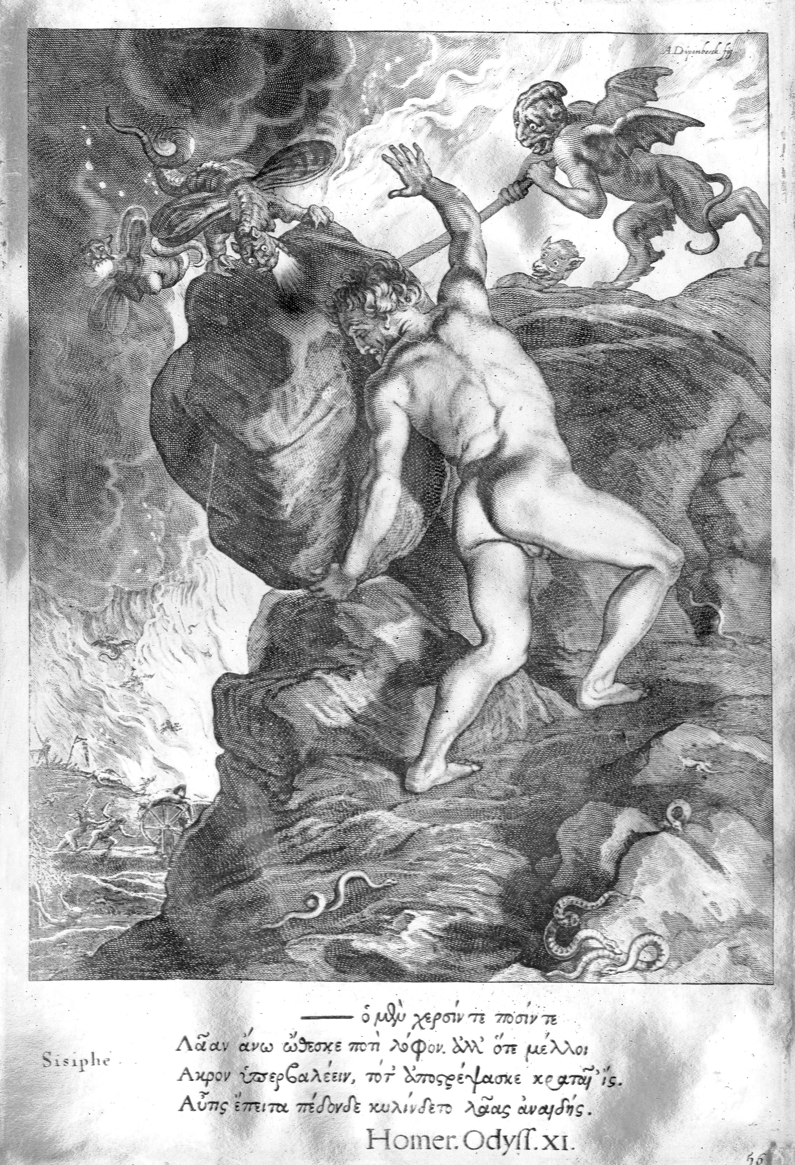 Sisyphus plate 56